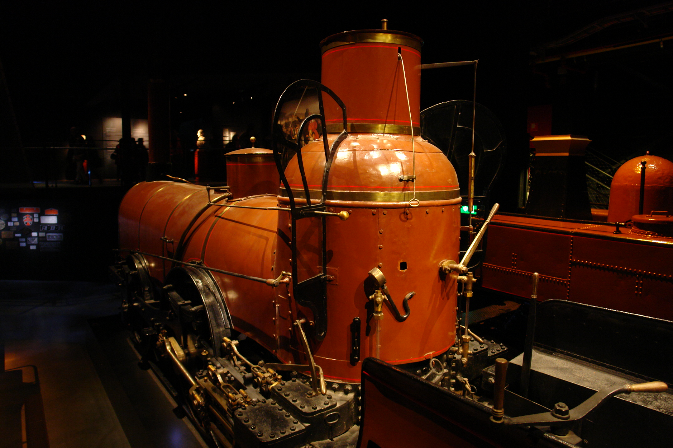 Train World is a railway museum in Brussels and the official museum of the National Railway Company of Belgium.